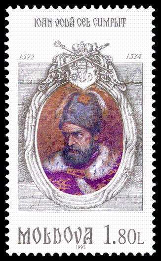 Ioan Vodă cel Cumplit (1572-1574). Applied the policy of strengthening the central power and liberation of the country from under the Ottoman influence, impairing the interests of boyars, which called him “Cumplit” - Cruel.